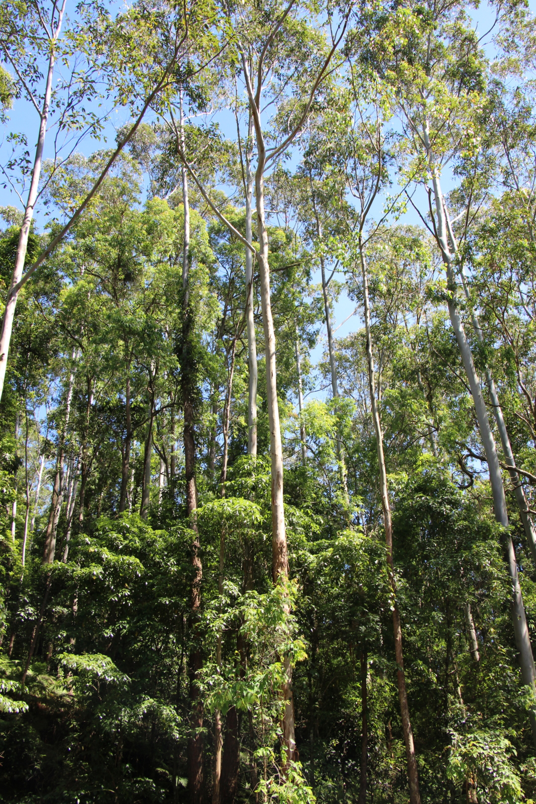 Sydney Blue Gum (Eucalyptus botryoides). (All Sydney Blue Gums south of Port Jackson are now not considered to be Eucalyptus saligna). Barrengarry Nature Reserve, near Kangaroo Valley, NSW, Australia